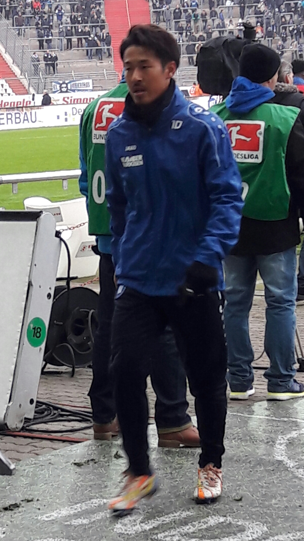 Footballplayer Hiroki Yamada before the match KSC - Eintracht Braunschweig at December, the 17th 2016